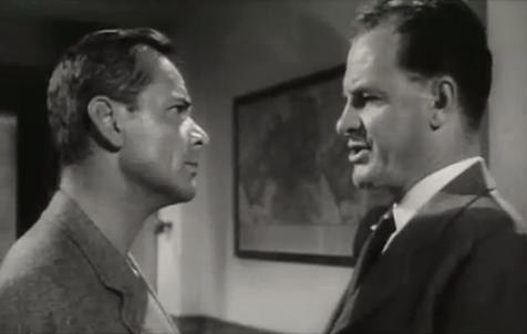 James Daly (left) & James Gregory in The Young Stranger - trailer (cropped screenshot)